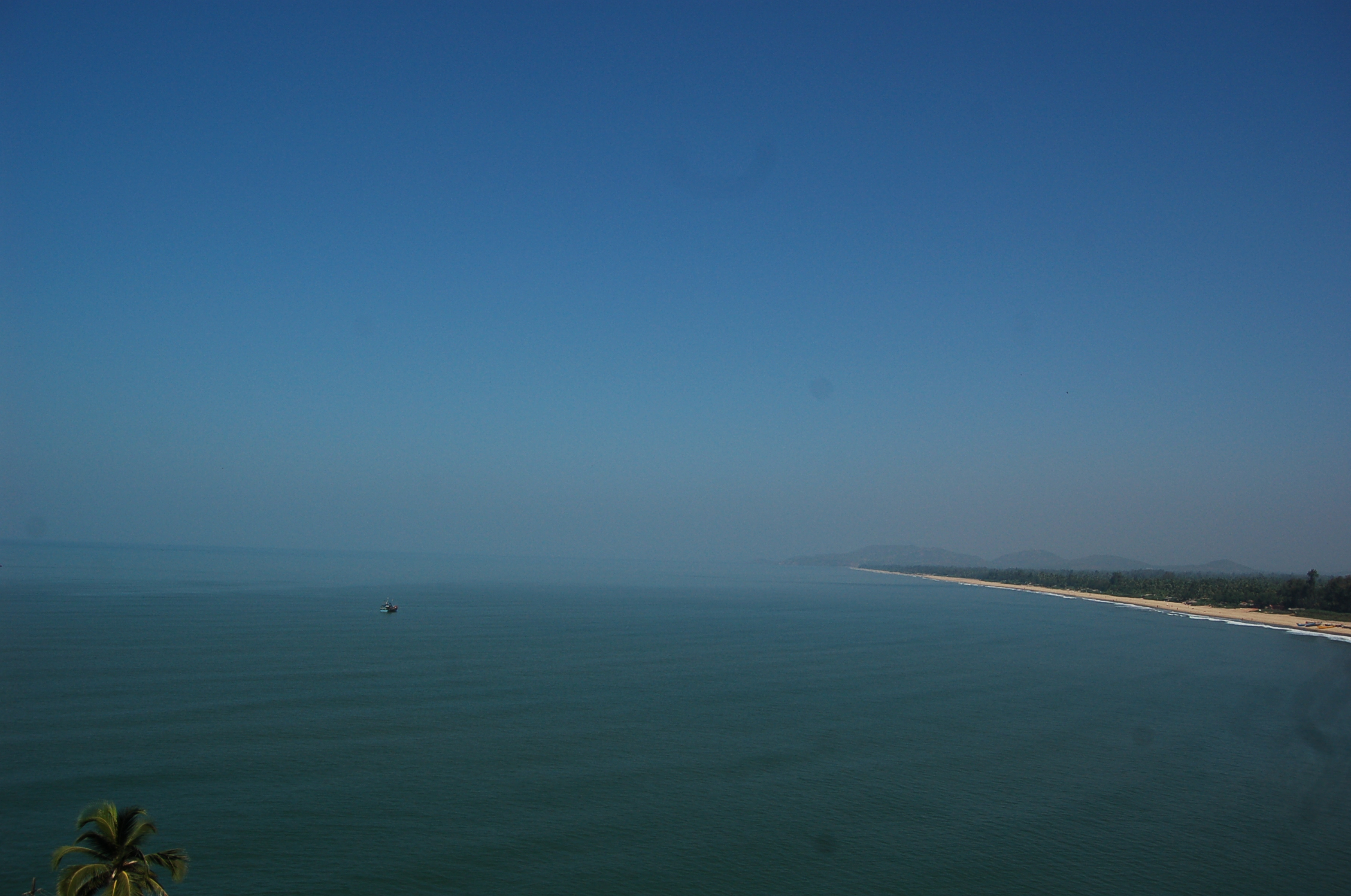 Gokarna beachline